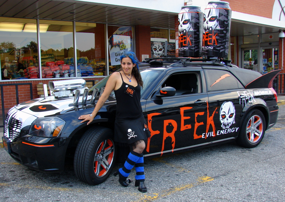 A promotional model stands in front of a Dodge Magnum (LX) to advertise an energy drink. The model, car, and drink all use scary skull images for the advertisement.